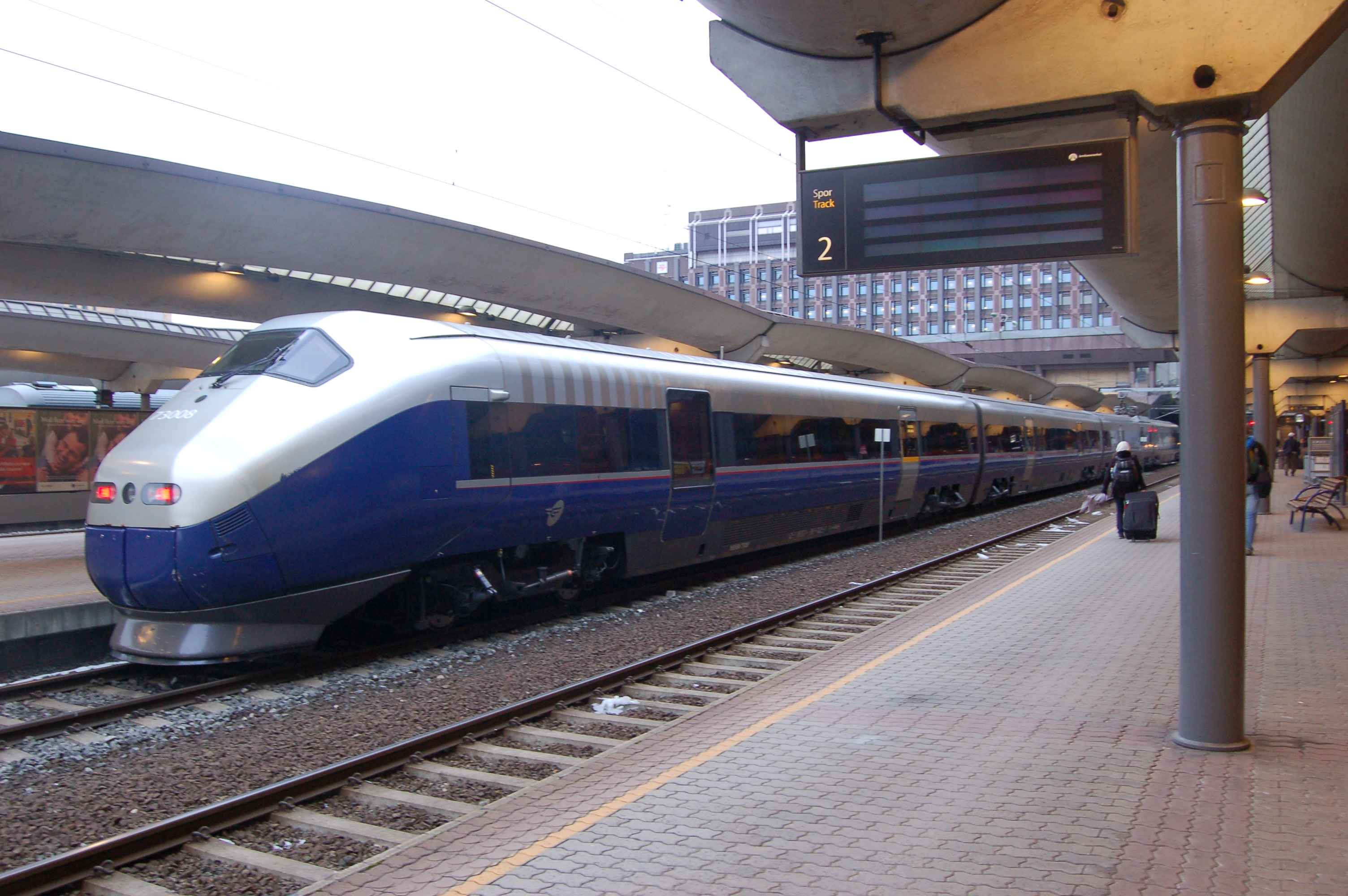 Norges Statsbaner BM73 electric multiple unit at Oslo Central Station